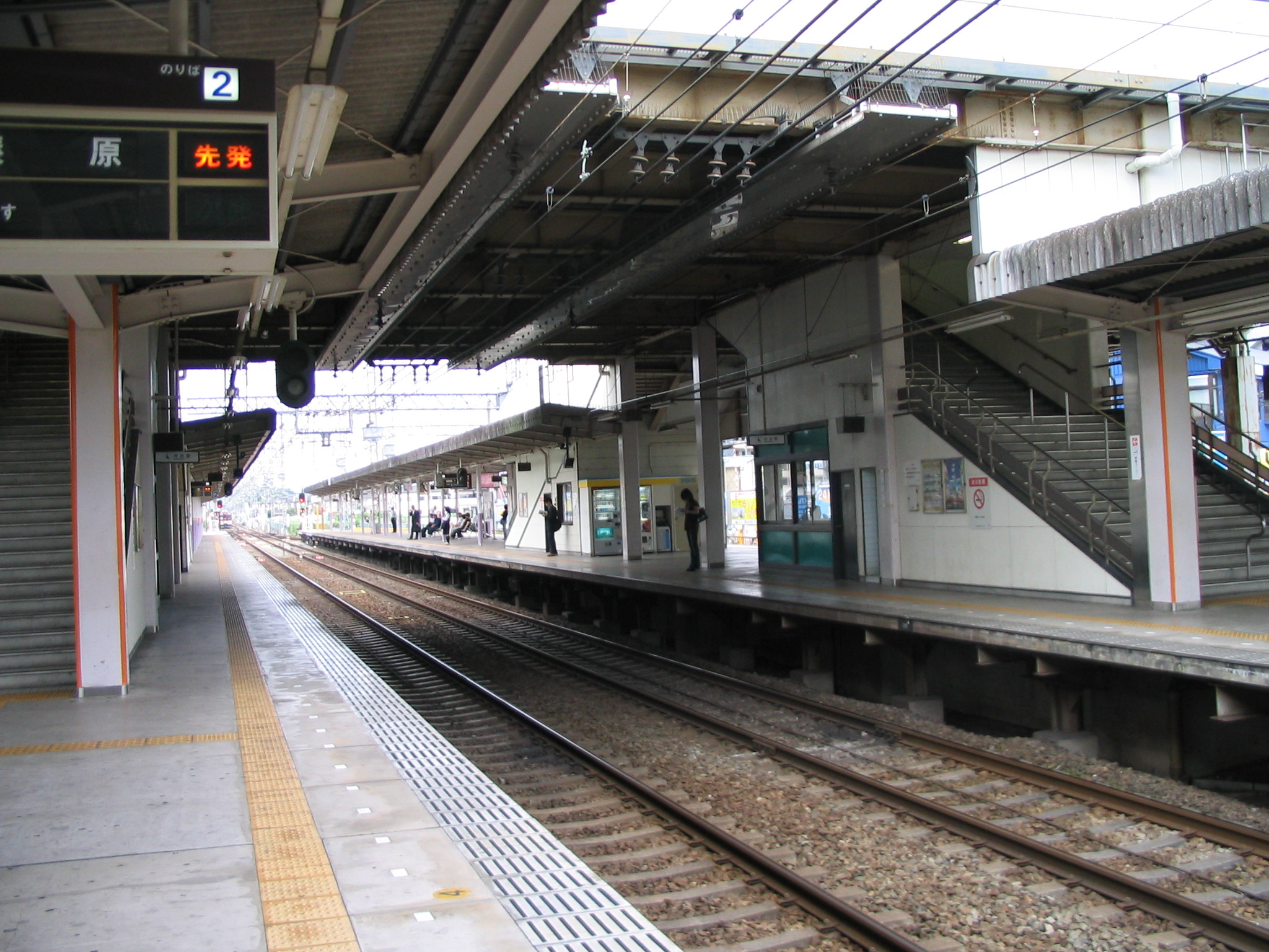 Goido Station, , Japan